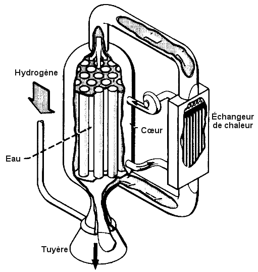 Tungsten Water-Moderated Reactor concept (french translation)